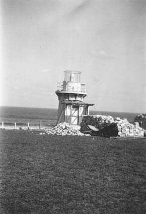 Richmond River Light - during demolition of annexe, November 1940